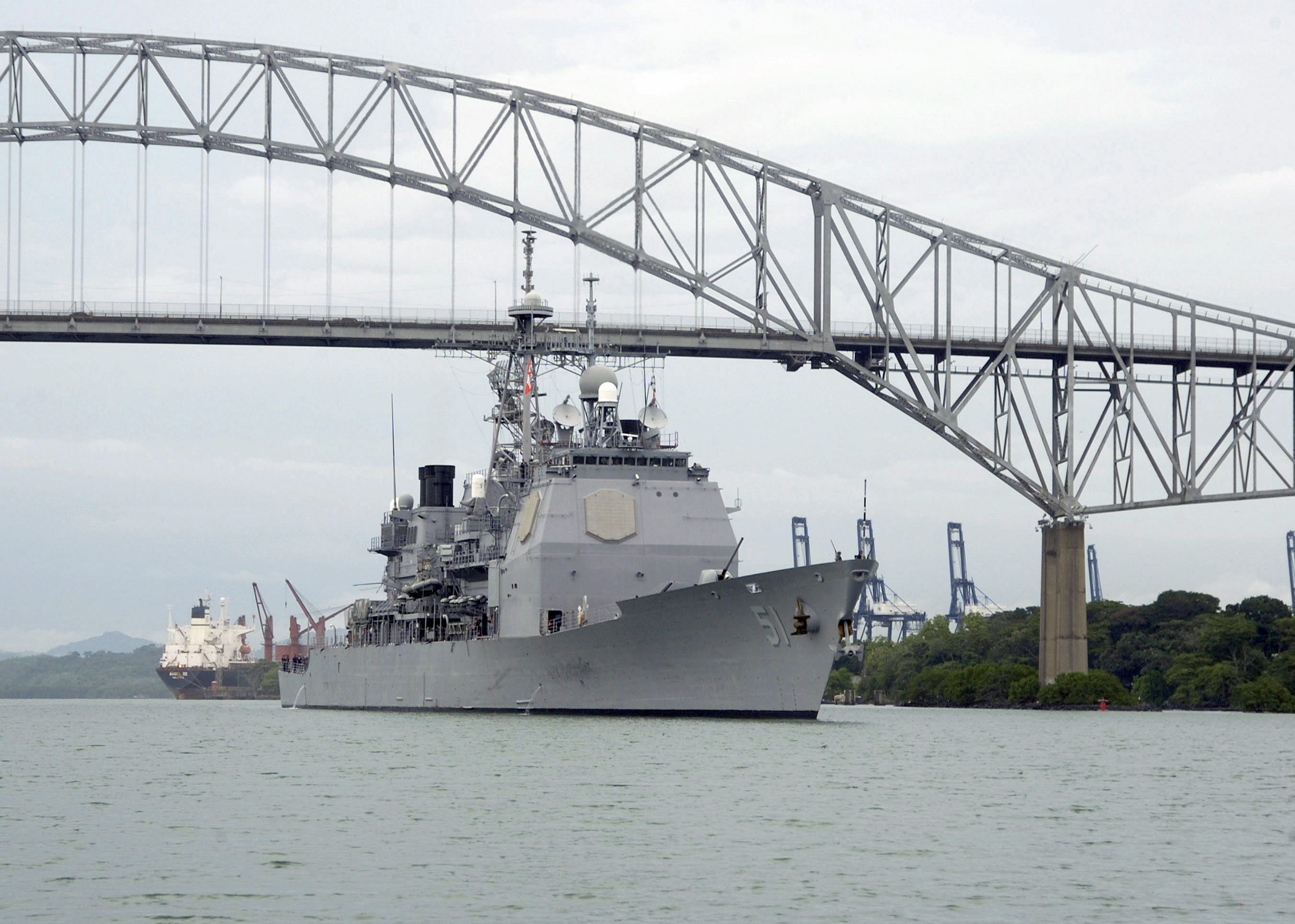 The US Navy (USN) Ticonderoga Class Guided Missile Cruiser USS THOMAS S. GATES (CG 51) sails under the Bridge of the Americas as it departs the port of Vasco Nunez de Balboa to conduct the at-sea portion of the PANAMAX 2005 exercise. PANAMAX 2005 is a training exercise in defense of the Panama Canal involving 15 countries.